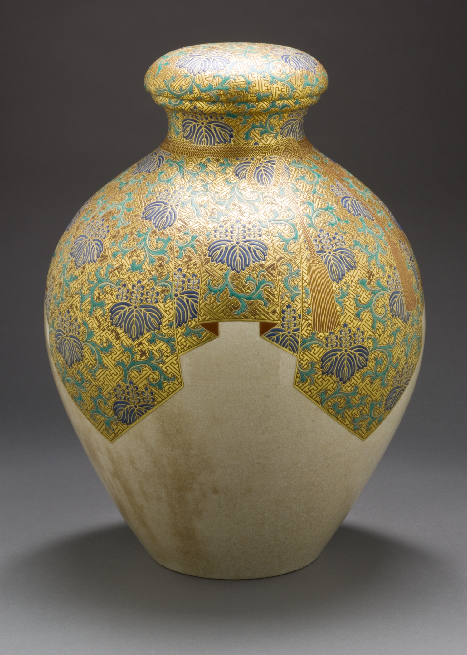 Japan, late Edo period (1615-1868), circa 1800-1850 Furnishings; Serviceware Satsuma ware; earthenware with overglaze enamels and gold a) Lid height: 2 1/8 in. (5.4 cm); a) Lid diameter: 6 in. (15.24 cm); b) Vase height: 14 3/4 in. (37.47 cm); b) Vase diameter: 13 in. (33.02 cm); Overall height: 16 1/2 in. (41.91 cm); Overall diameter: 13 in. (33.02 cm) Gift of Leslie Prince Salzman (M.2007.130a-b) Japanese Art